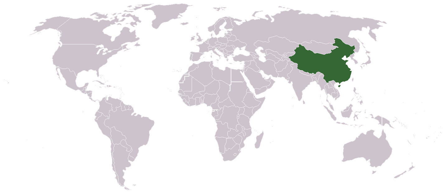 Locator map for the People's Republic of China